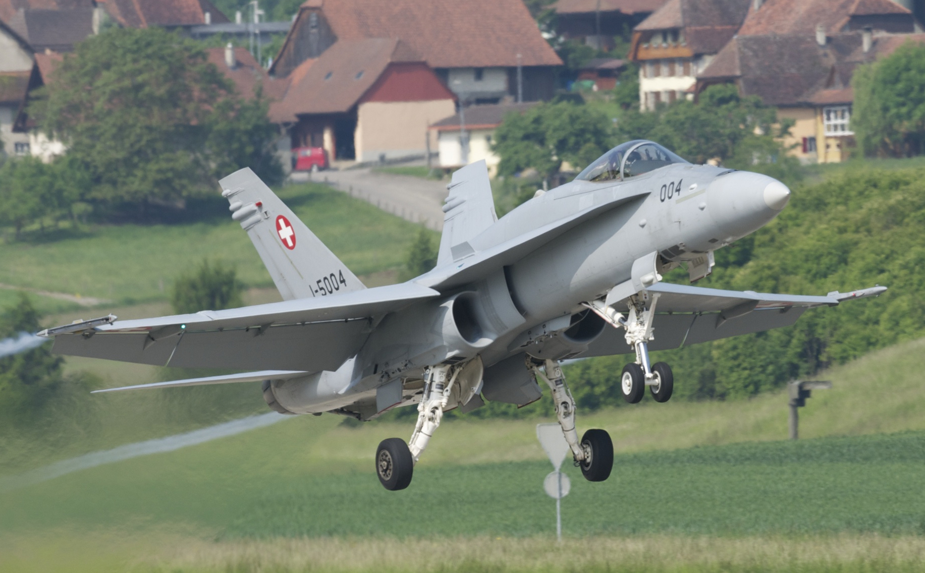 cropped version of this file